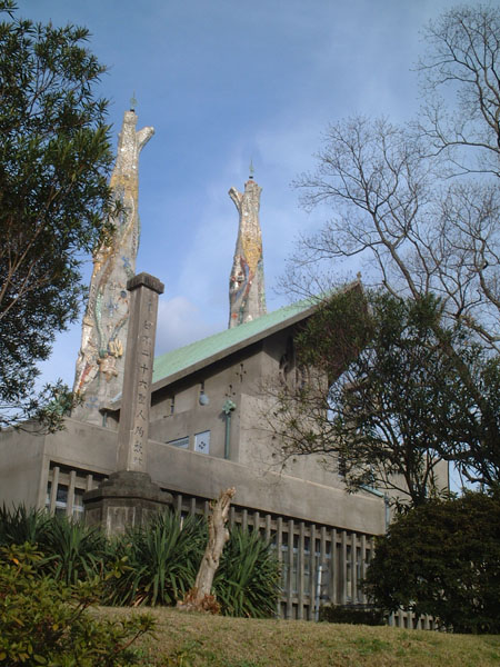 Twenty-six martyrs museum. Location: Nishizaka-machi, Nagasaki, Japan. Photo by Fk.